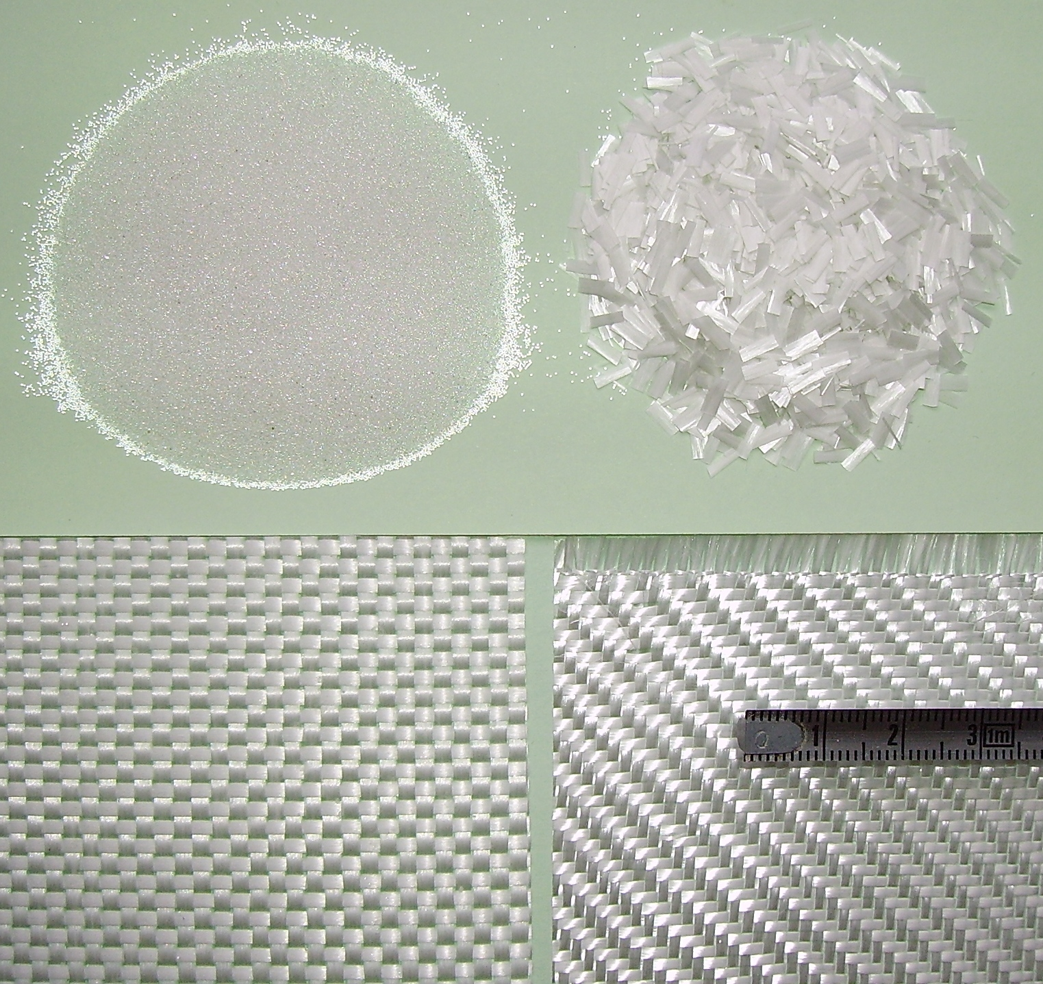 Examples of glass filler (microspheres) and glass material (cut fibers and two fabrics) for plastics reinforcement: glass microspheres (or glass beads); diameter: about 300 µm, specific gravity: 2.5. Mineral filler mainly used to increase the stiffness of a thermoset resin and to make road safety markings; 5 mm length chopped strands of fiberglass used to reinforce thermoset resins; fibrous reinforcements for thermoset resins: two glass fabrics with different area density; fiber orientation: 0 and 90° (most common): weave pattern: taffeta (down left, area density: 550 g/m2), and 2x2 twill (down right, area density: 280 g/m2).